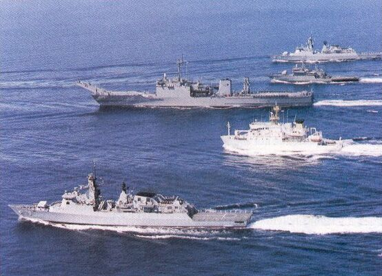 ex-Spartanburg County (LST-1192) (center) in company with a task force of Royal Malaysian Ships (from top to bottom) Lekiu; Marikh; RMN KD Sri Inderapura(L-1505) (ex-Spartanburg County (LST 1192); Perantau; and Lebat), steam in the Malacca Strait region on a recent exercise.).